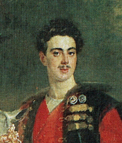 Portrait of Anatoly Demidov (by Karl Bryullov)